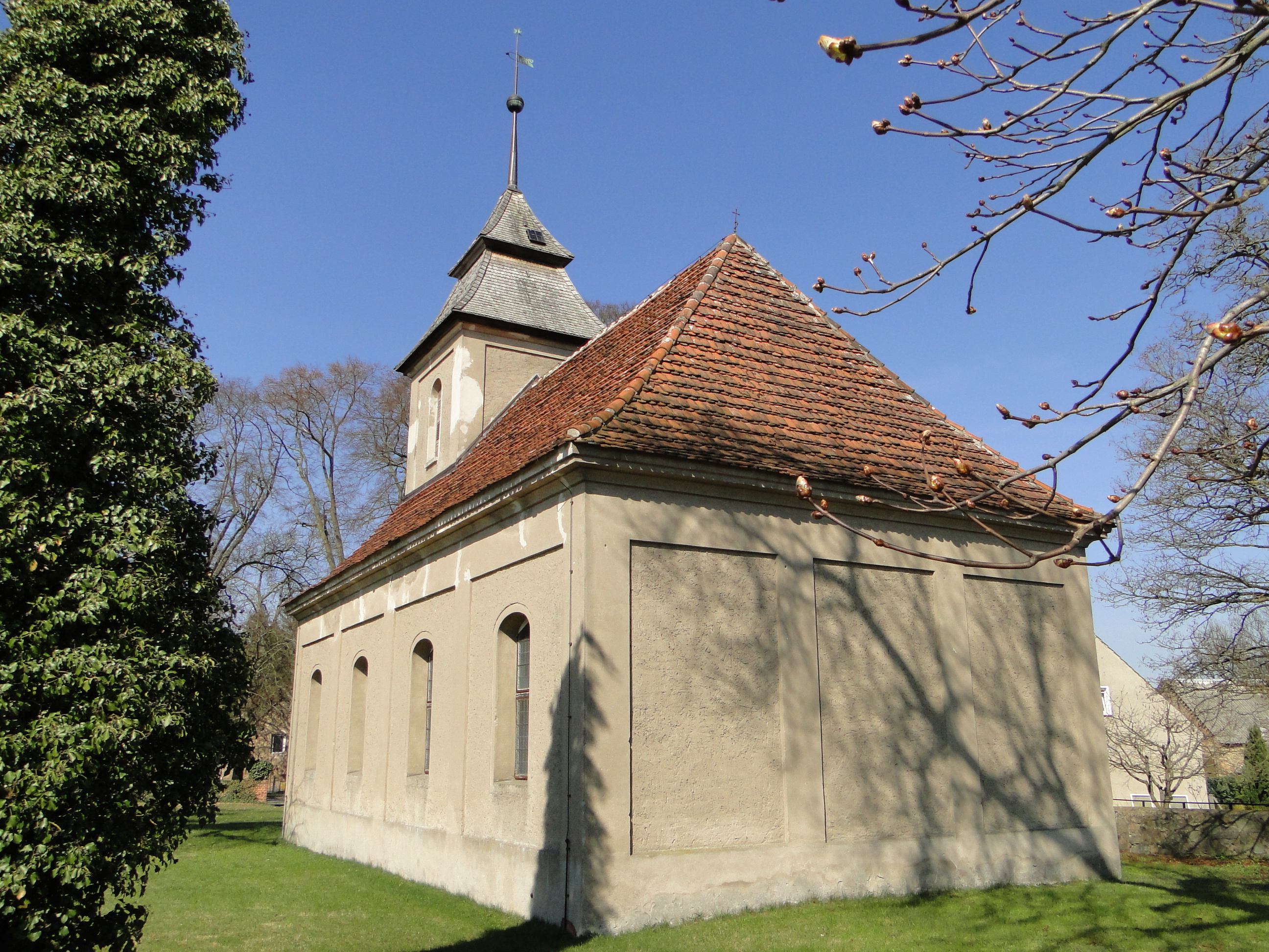 Church in Diemitz, disctrict Mecklenburg-Strelitz, Mecklenburg-Vorpommern, Germany